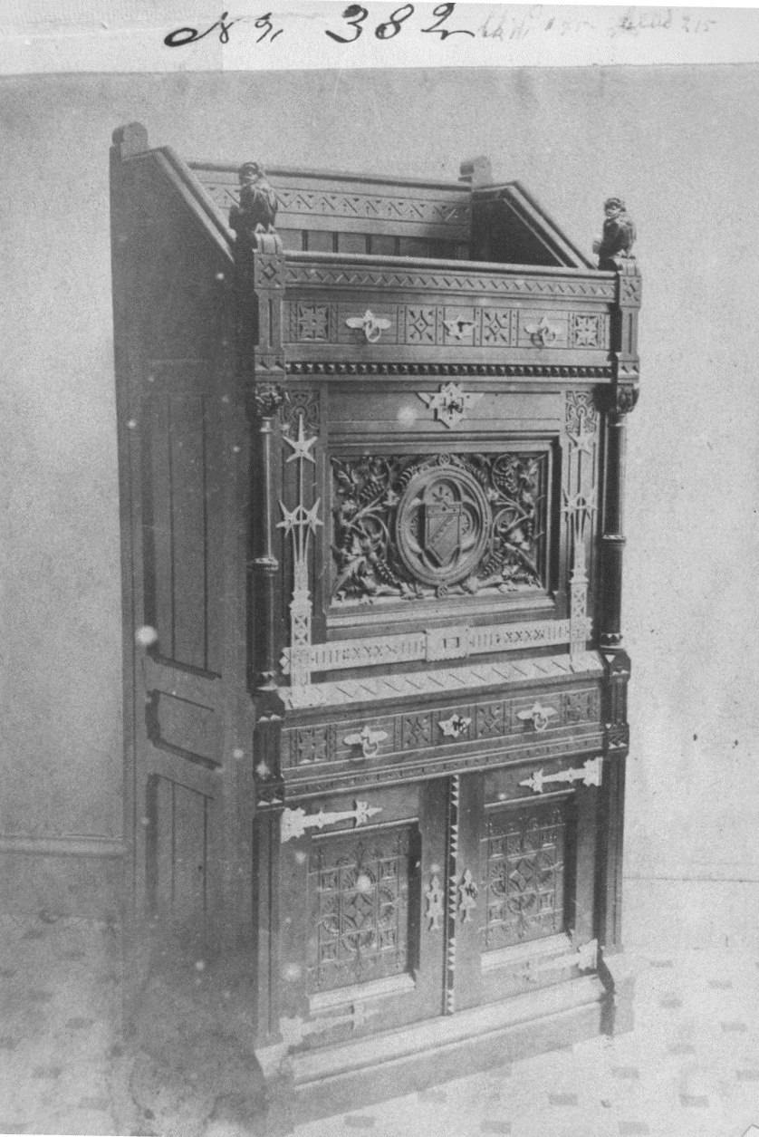 Modern Gothic secretary-abattant (drop-front desk), Kimbel & Cabus trade catalogue, #382 (cropped).